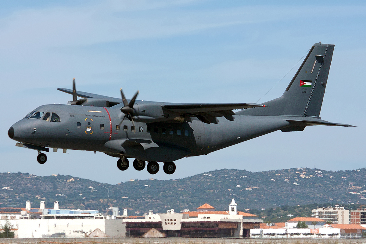 Aircraft: CN-235M-100 Airline: Jordan - Air Force Serial #: C034